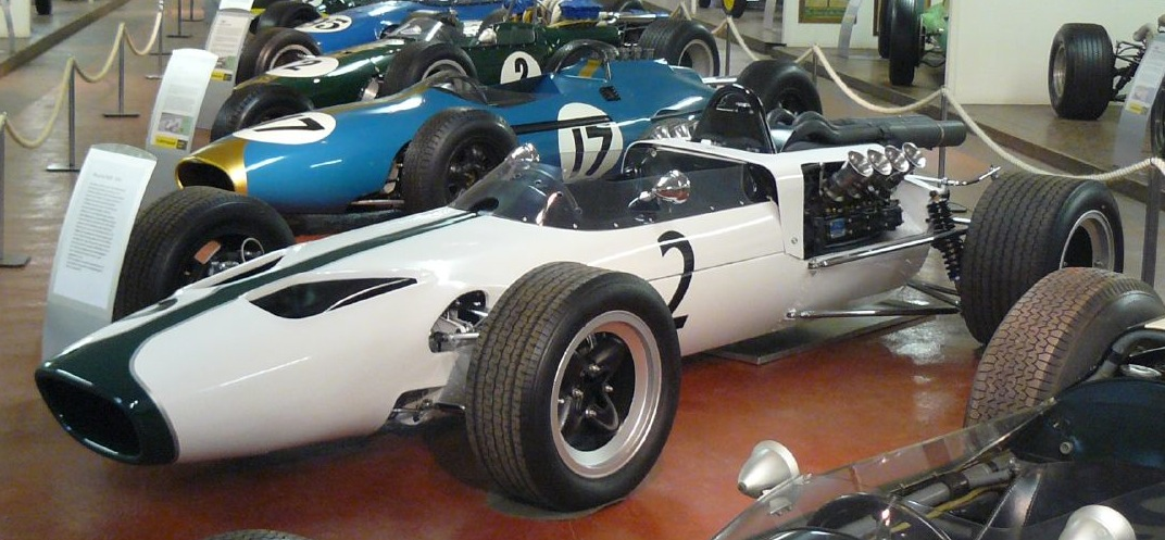 A McLaren M2B Formula One car, on display in the Donington Grand Prix Exhibition, Leicestershire, UK. Image cropped by Pyrope.